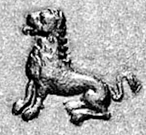 Menander II lion. Reworked detail of